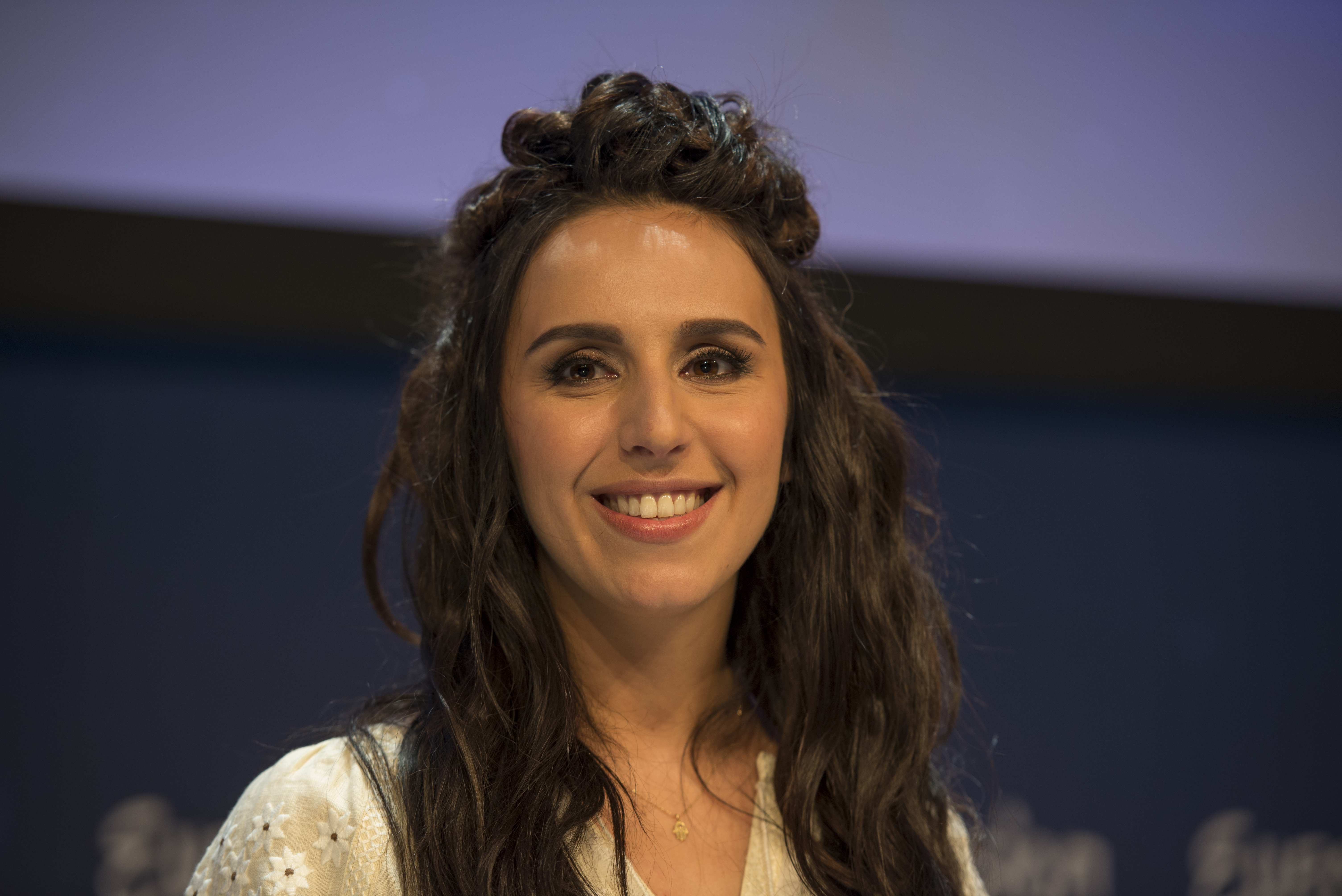 Jamala at a Meet & Greet during the Eurovision Song Contest 2016 in Stockholm. (Help translate this text)